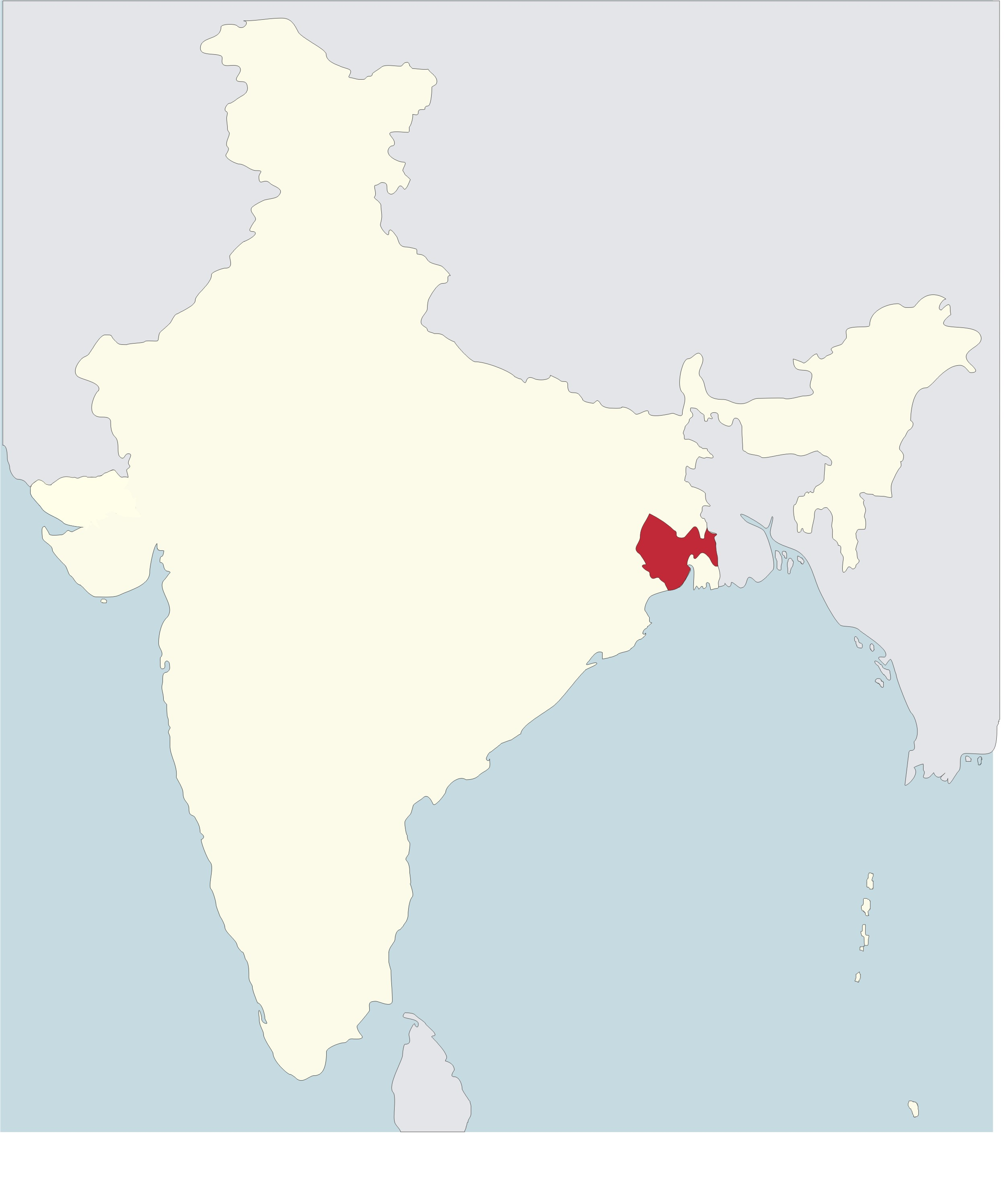 Map of the Roman Catholic Archdiocese of Calcutta in India